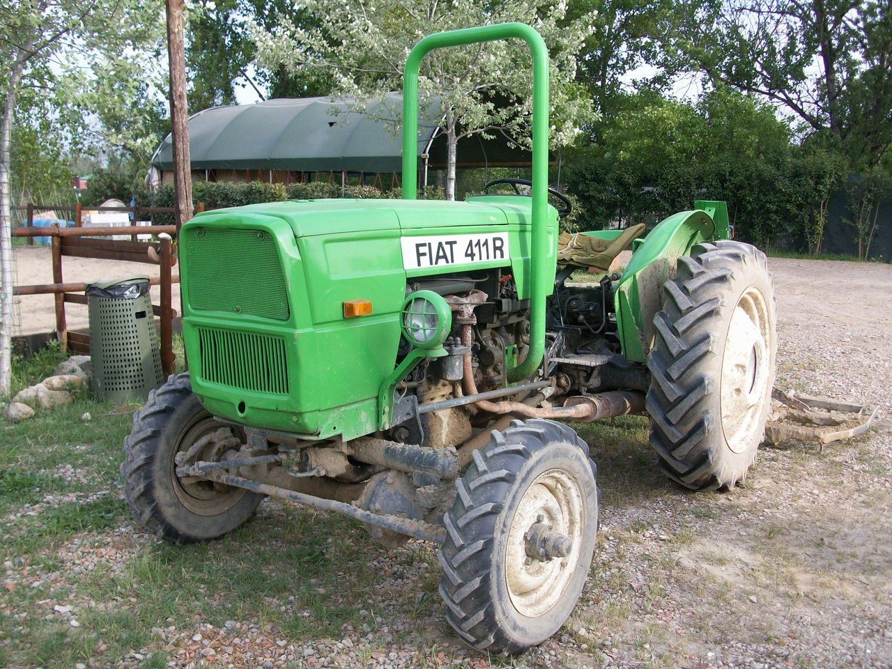 Fiat 411 R tractor